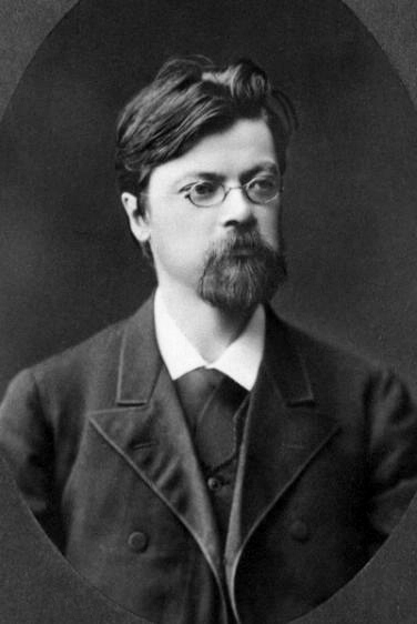 Albov, Mihail Nilovich (1851-1911), russian writer